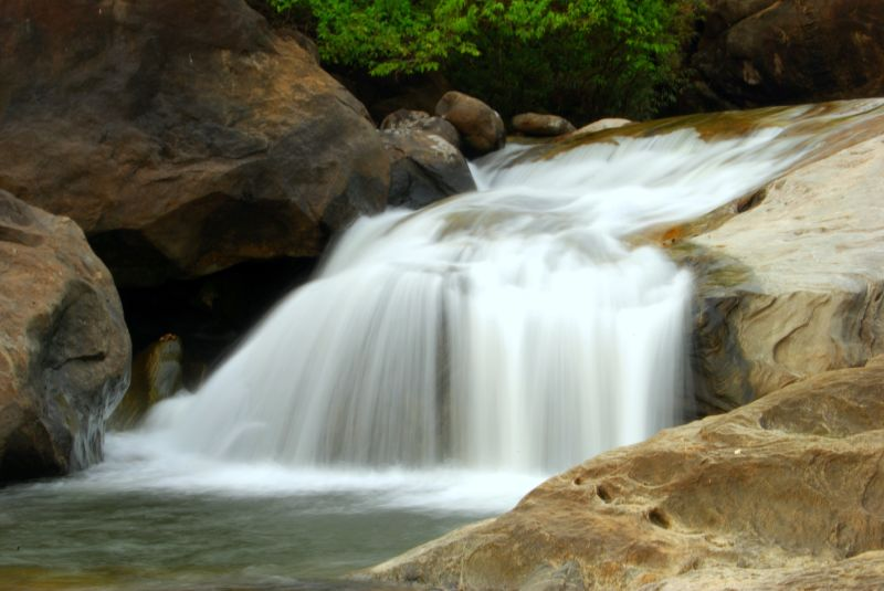 Arippara waterfalls in Anakkampoyil Near Thiruvambady